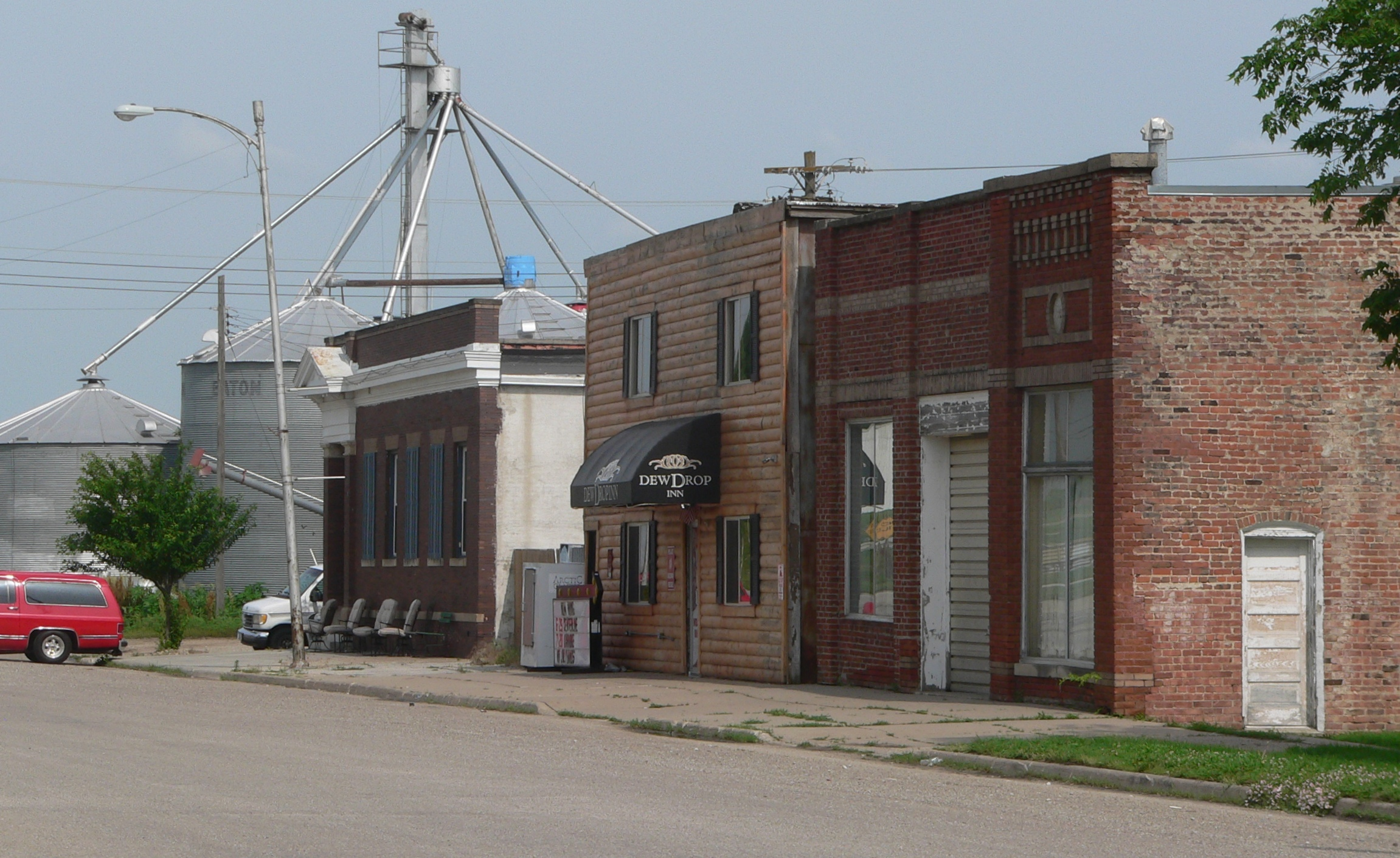 Kennard, Nebraska: south side of Second Street, looking southeast from about Maple Street.